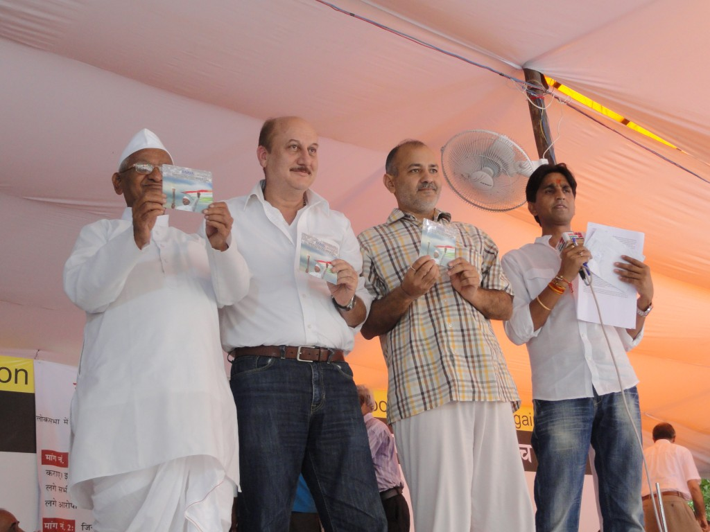 Anaa Hazare with Anupam kher, Manish sisodia and Kumar Vishwas during Janlokpal movement.